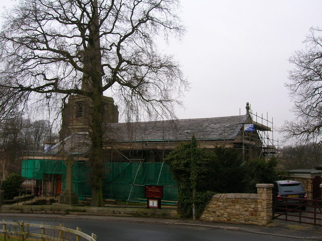 Under Repair Roof repairs at Immanuel, Feniscowles after two separate thefts of lead from the roof.